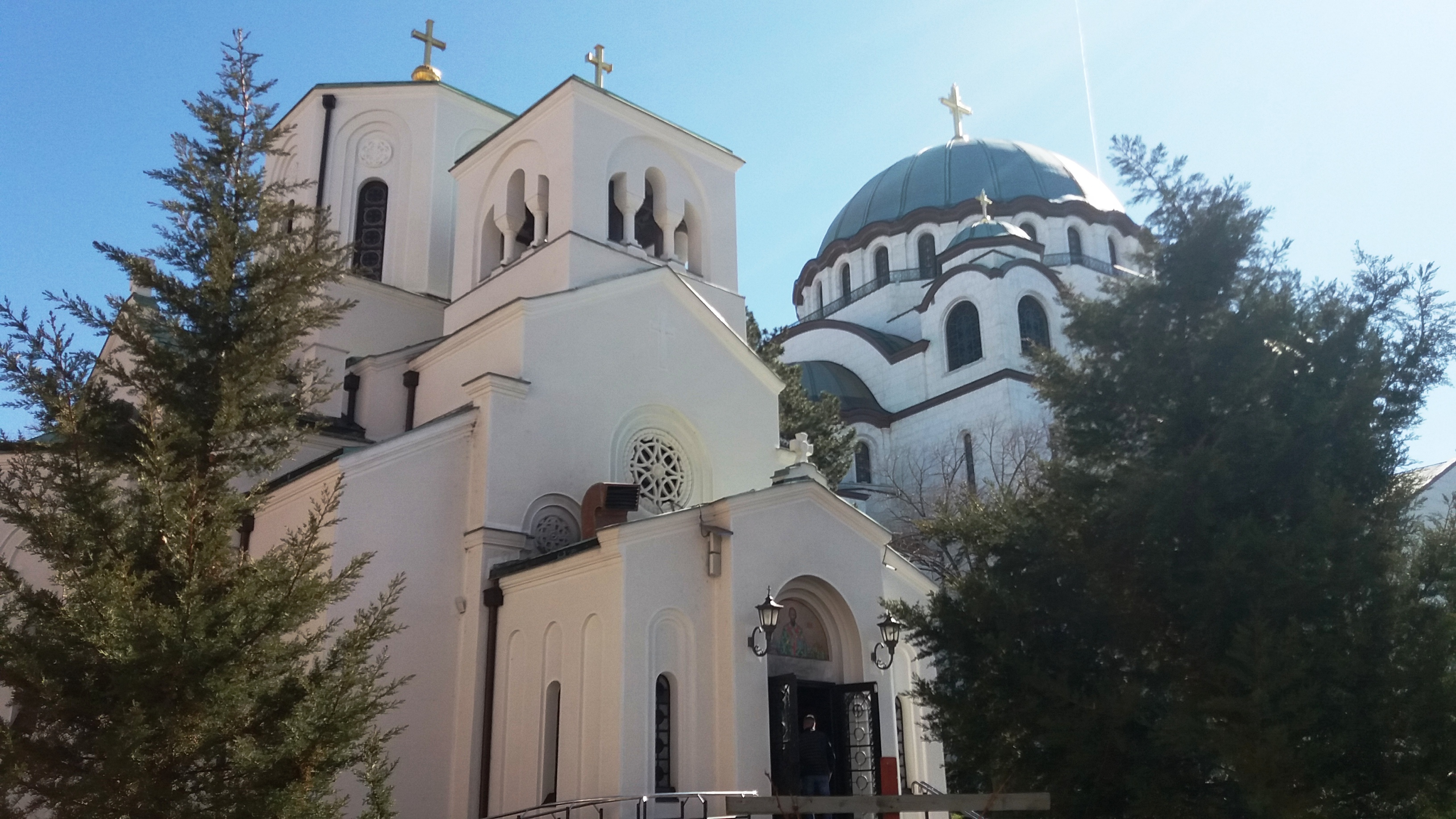 St. Sava Church and St. Sava Temple, Svetosavski Plateau, Belgrade